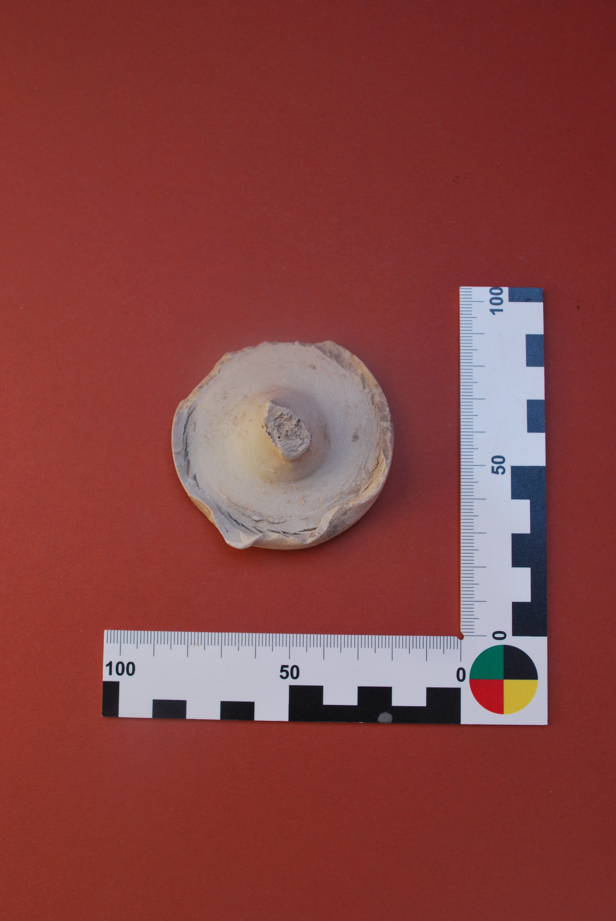 Siegburg Stoneware Kiln Furniture